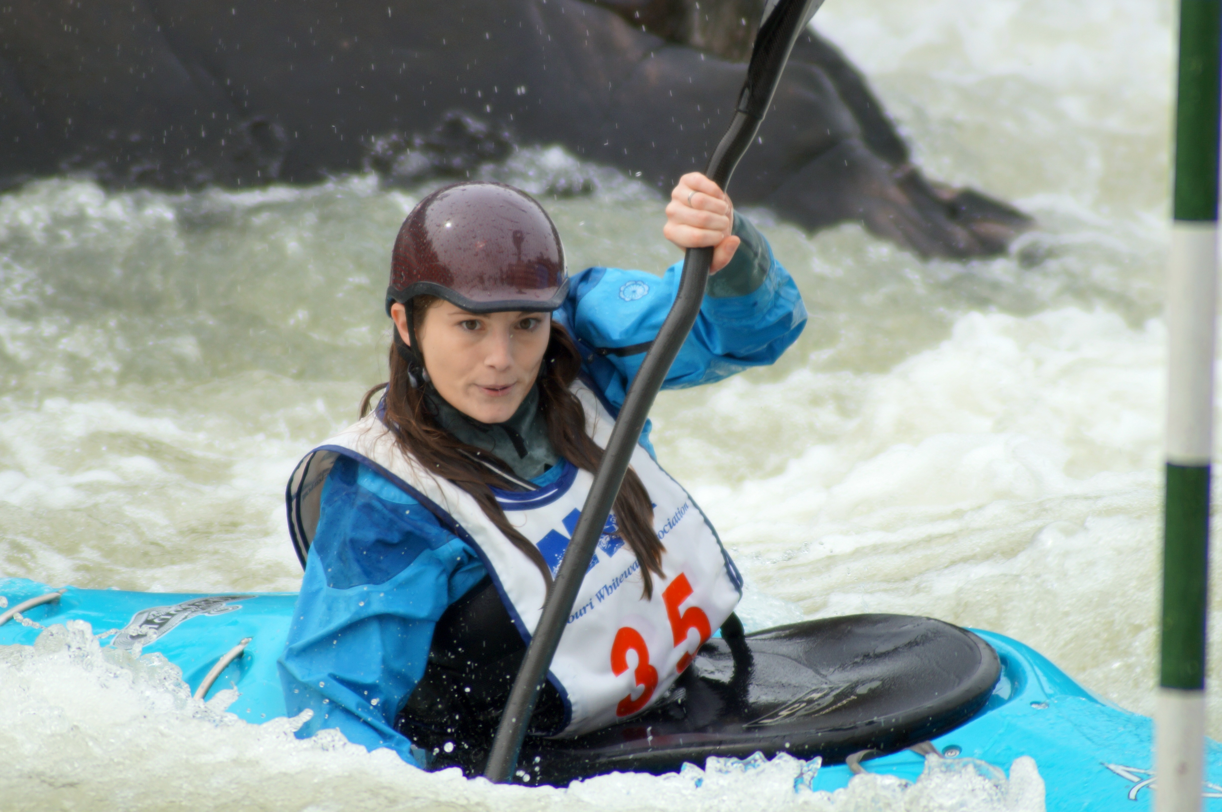 A kayaker competing in the 2013 Missouri Whitewater Championships